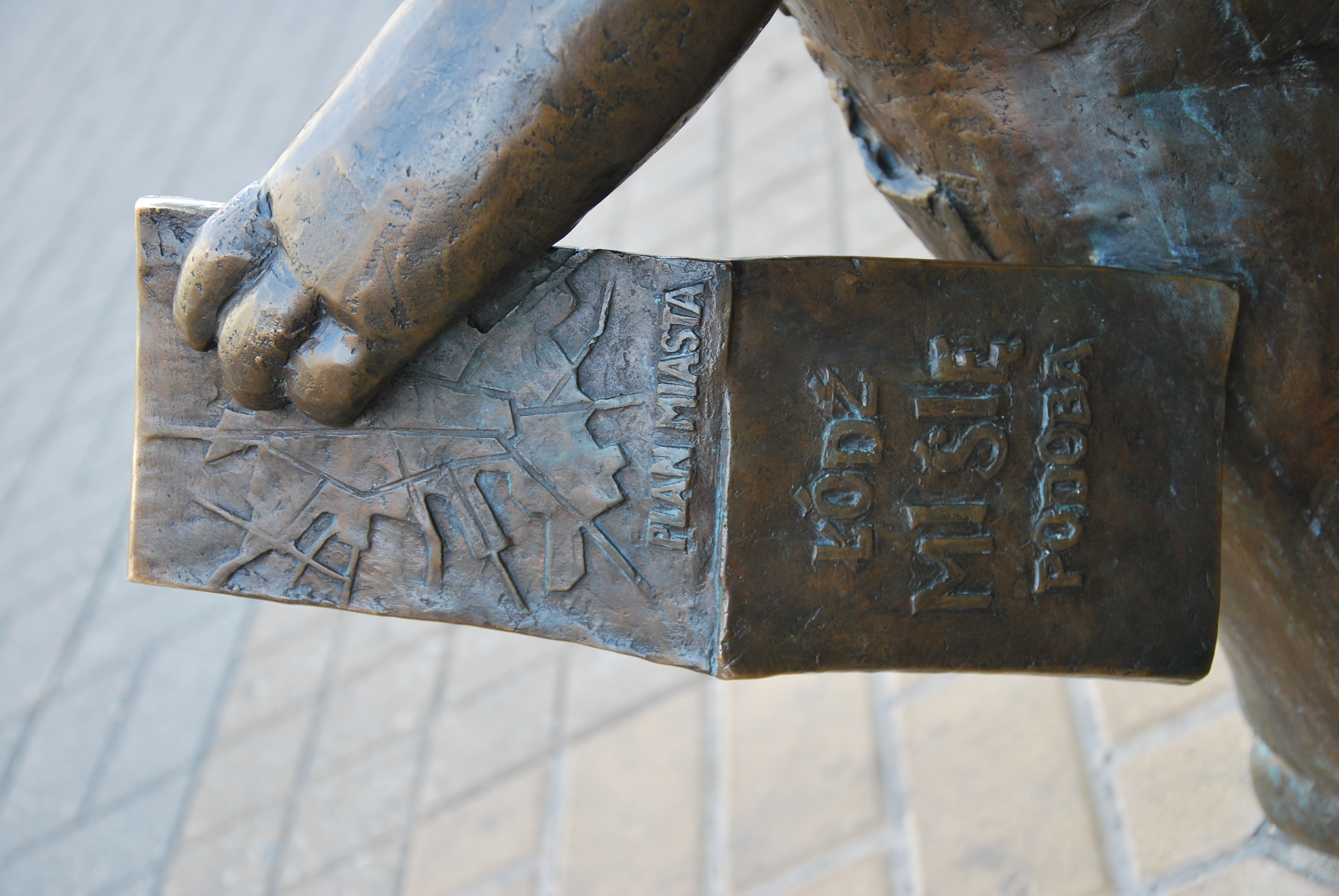 Miś Uszatek sculpture, Łódź Piotrkowska Street, detail, sculpted by - Magdalena Walczak and Marcin Mielczarek